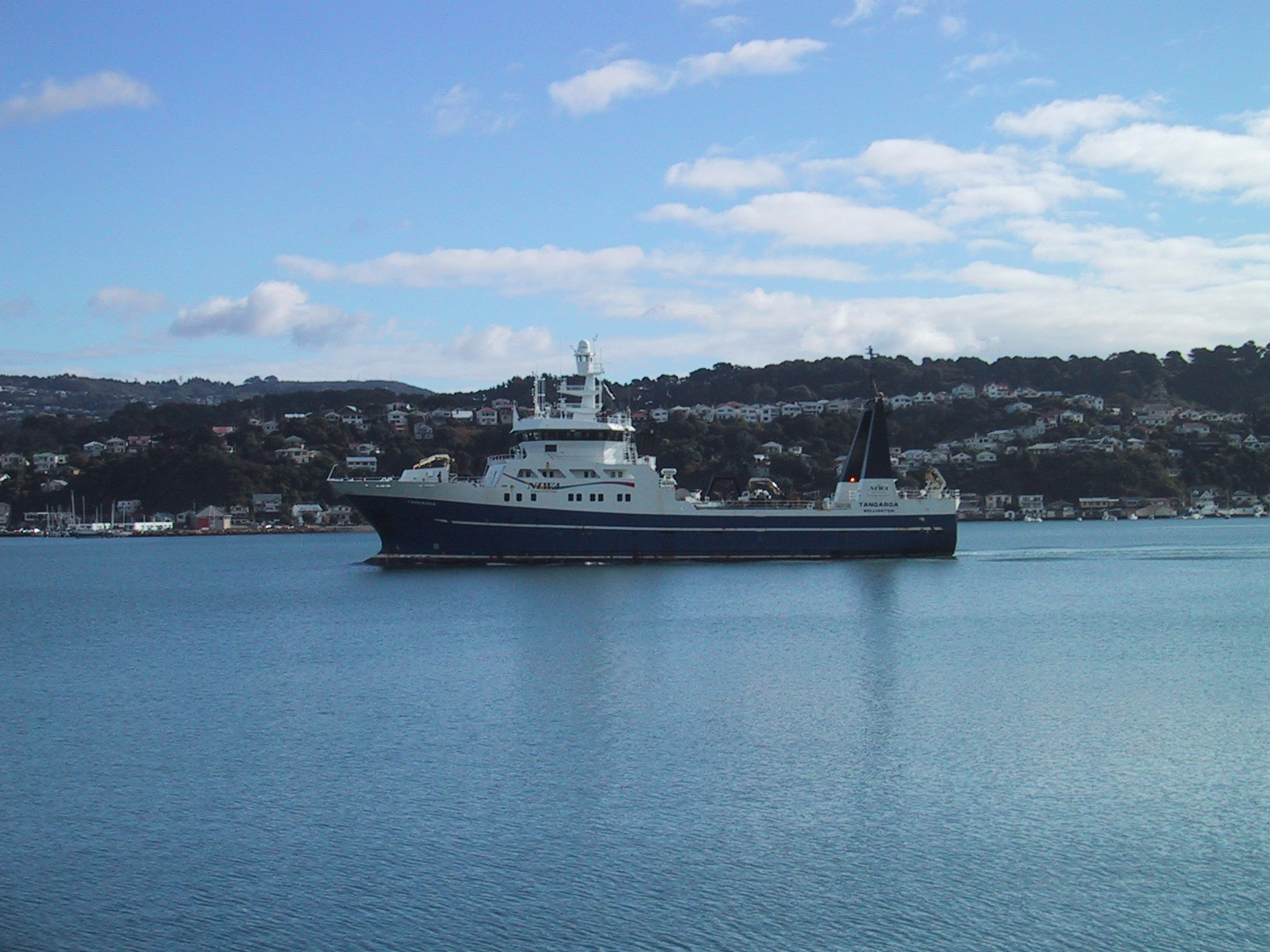 RV Tangaroa in Wellington harbour